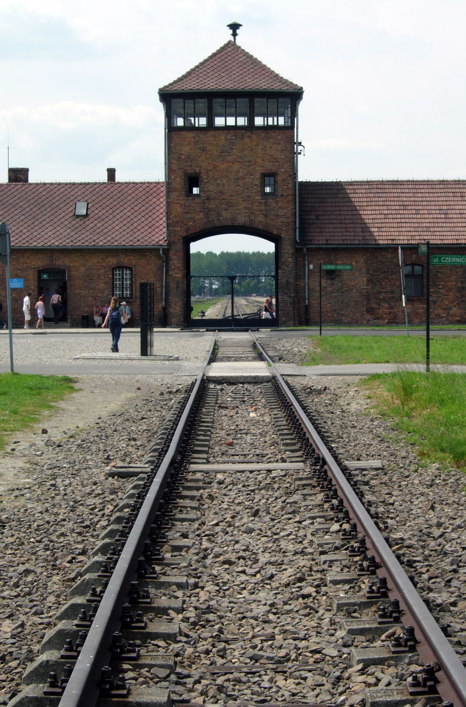 The main gate of Auschwitz II-Birkenau in 2006